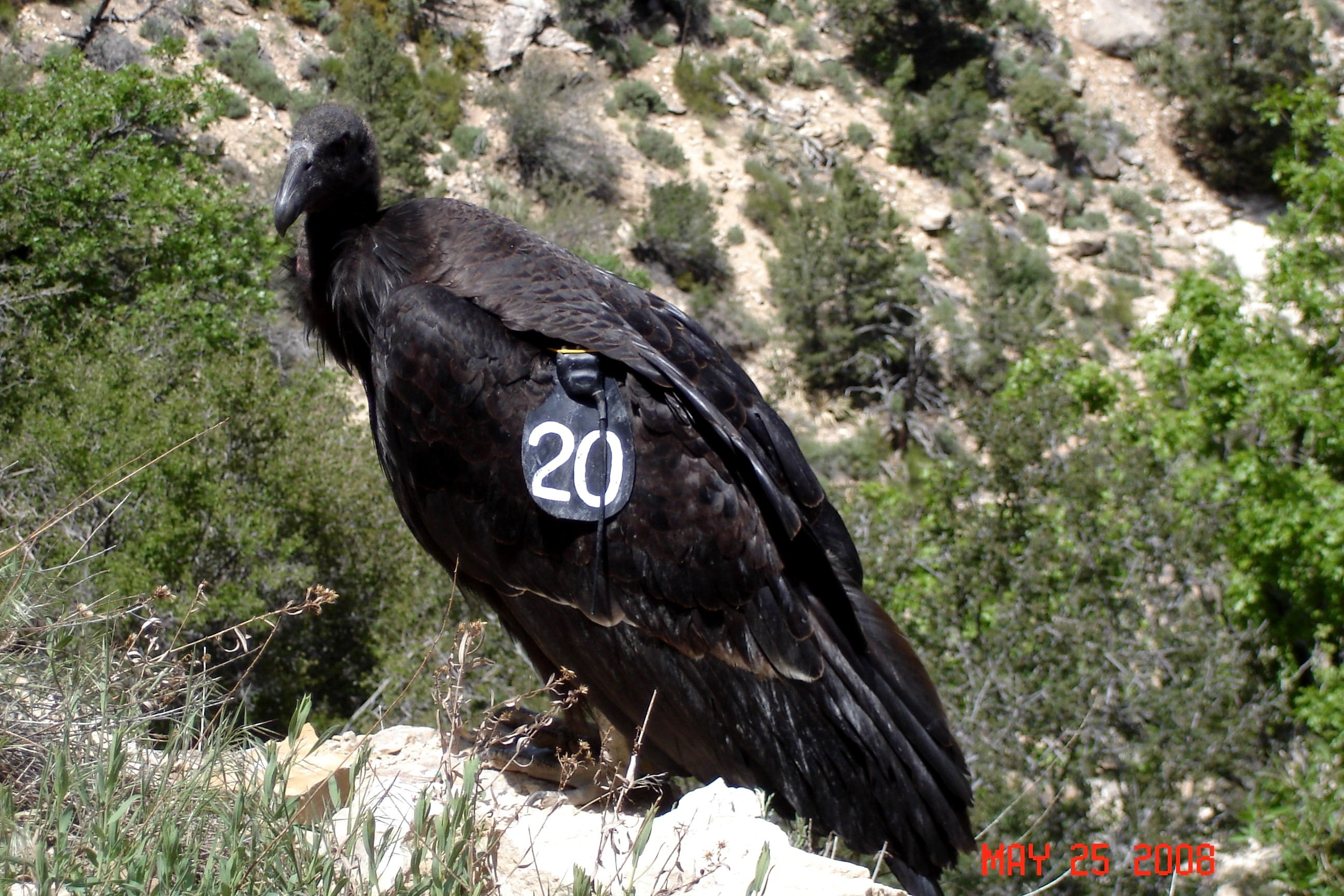 A California Condor resting near to Grand Canyon trail.